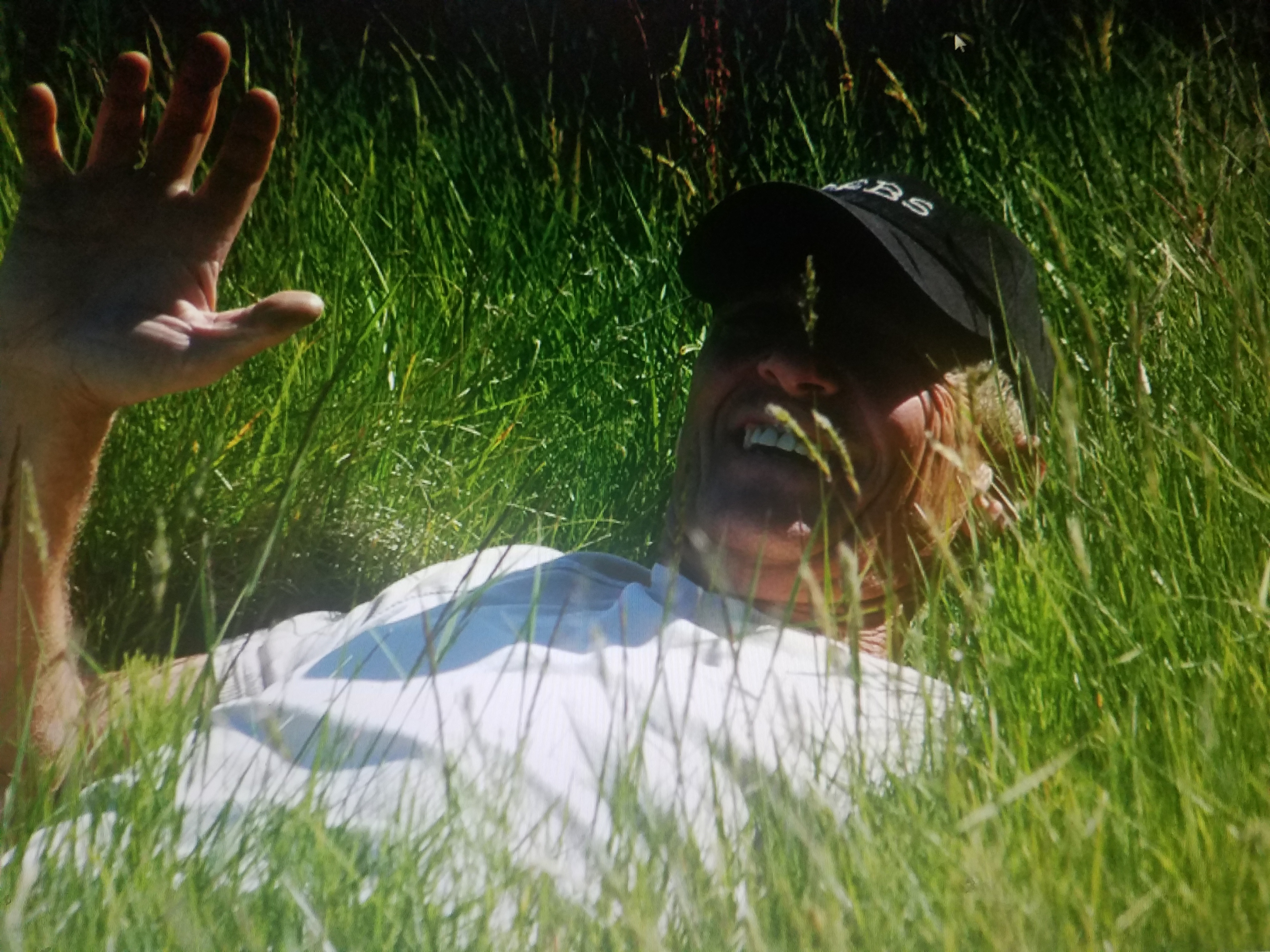 A tracball player in the field.